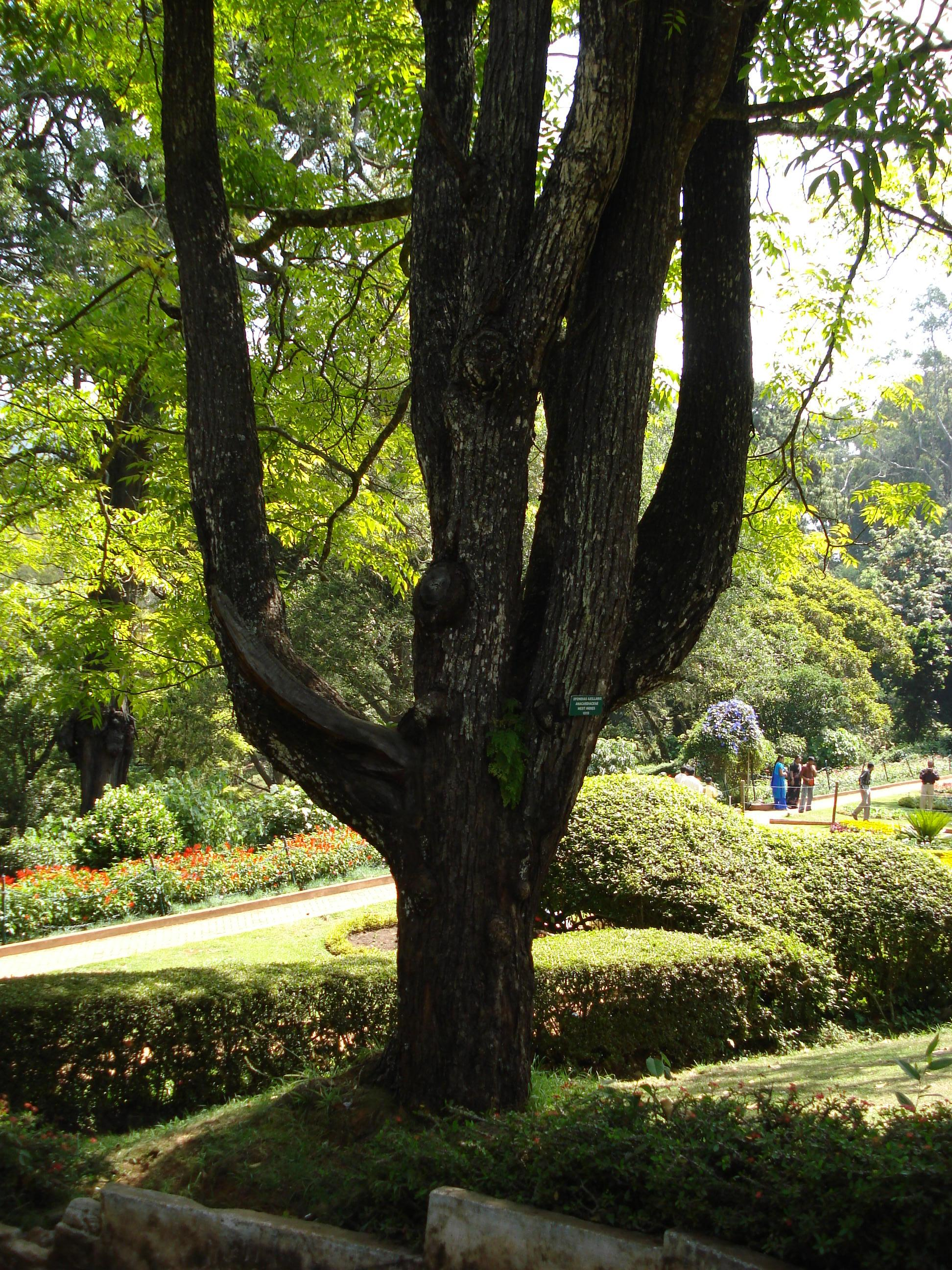 Choerospondias axillaris (Anacardiaceae) at Sim's Park, Coonoor